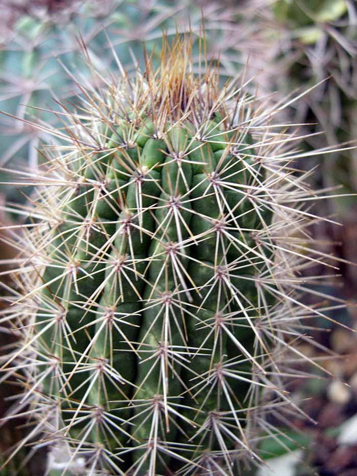 Its a cactus, member of the family facheiroa.